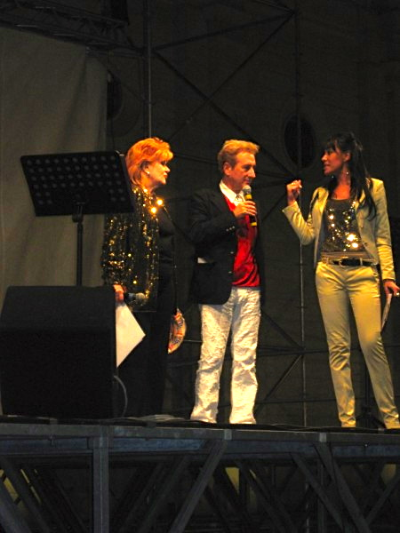 Homage to Pino Rucher, a life for the guitar (Manfredonia). The music critic Dario Salvatori and the presenter, Floriana Rignanese, introduce singer Aura D'Angelo.